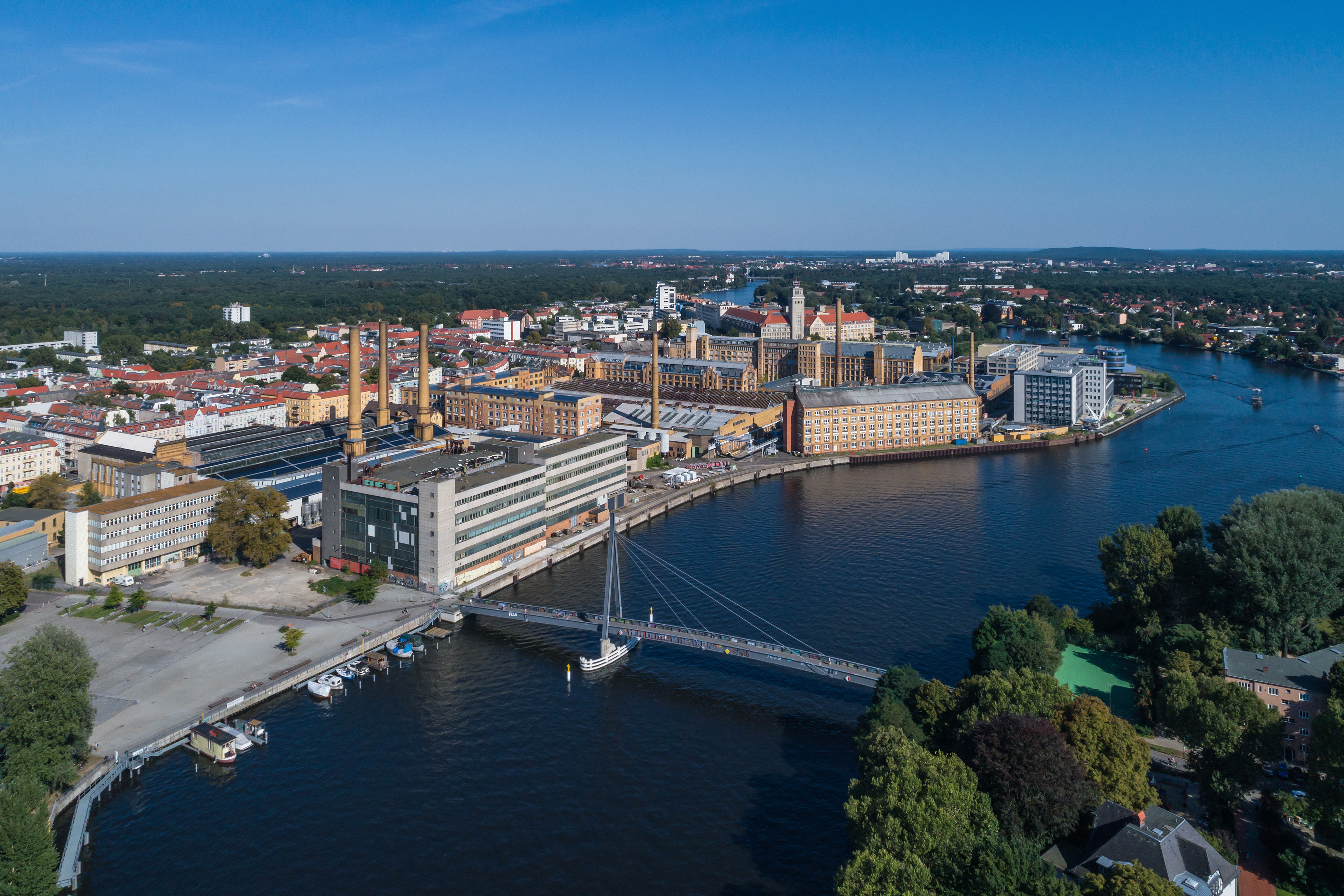 Aerial photo of Oberschöneweide in Berlin (Germany)